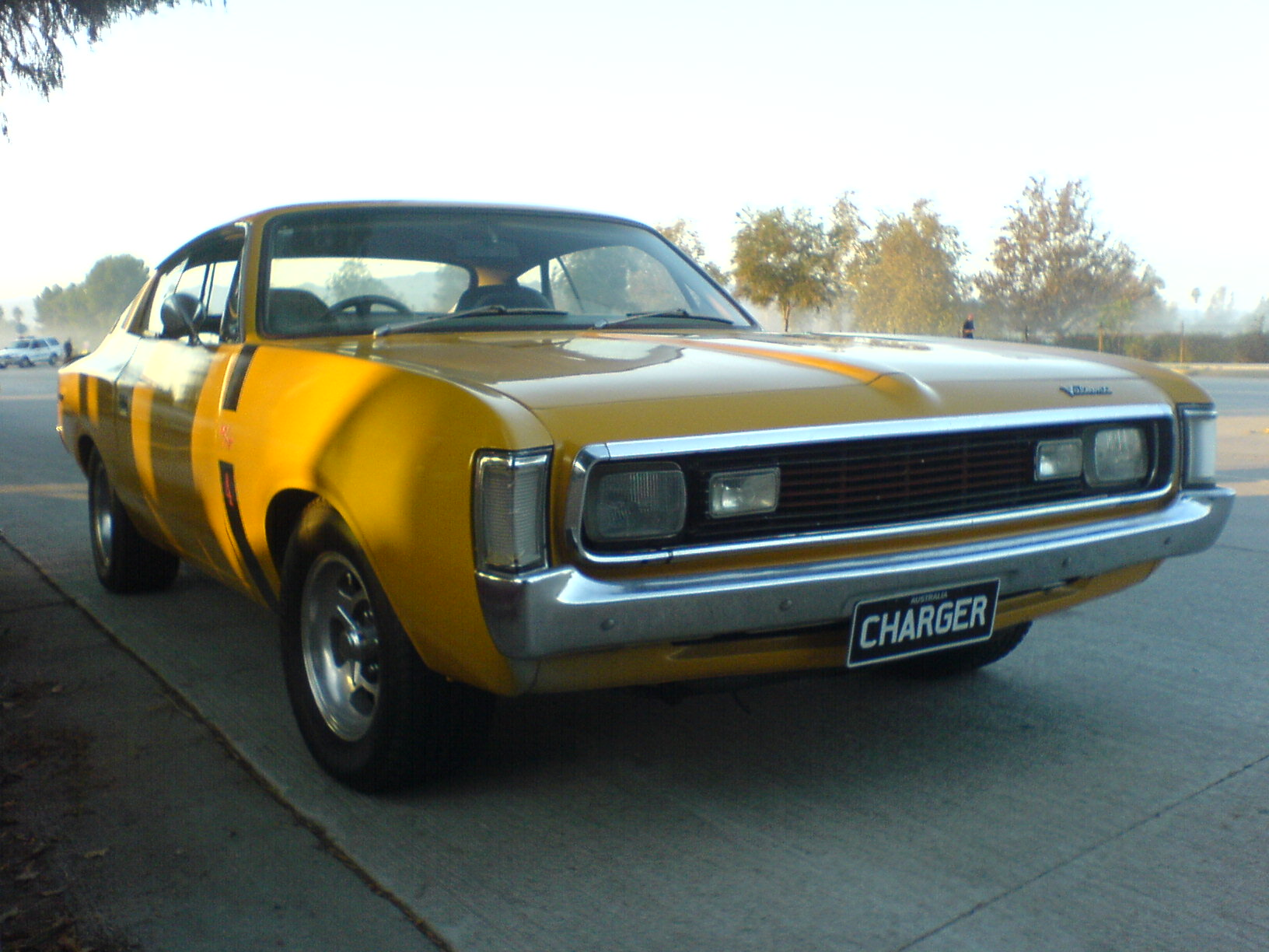 A 1971 Australian Chrysler VH Valiant Charger R/T.